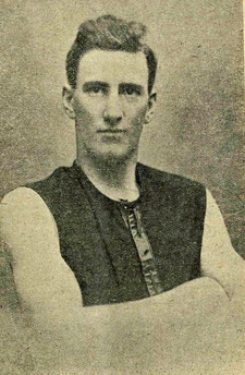 A portrait of Walter Scott, captain of the Norwood Football Club. Image is c1930.